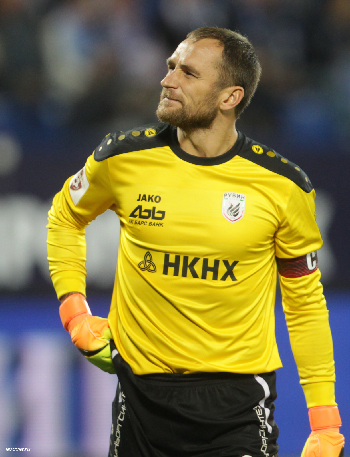 Sergei Ryzhikov